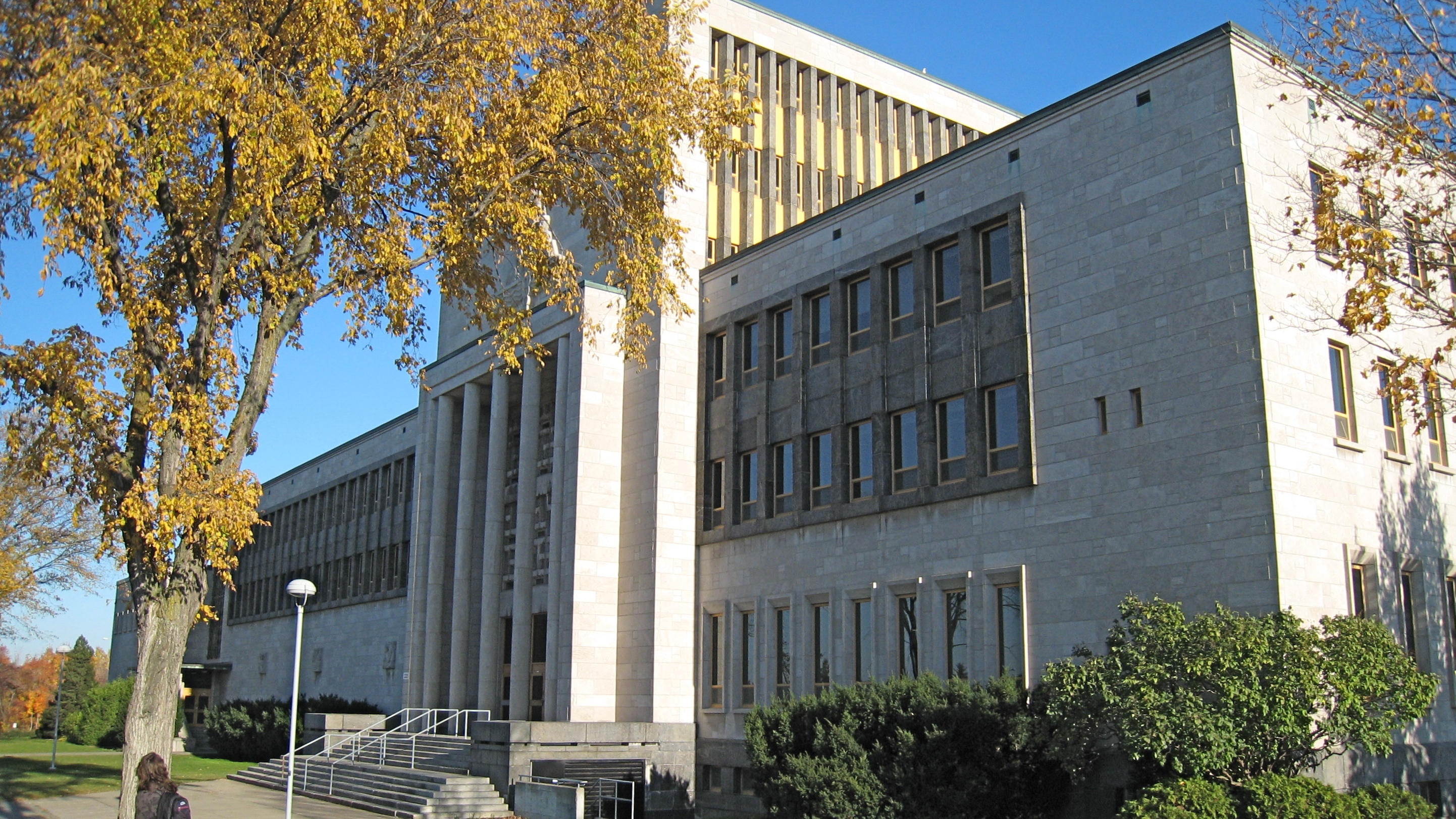 Palasis-Prince pavillion of the Laval University, Quebec, Quebec, Canada, October 2007.